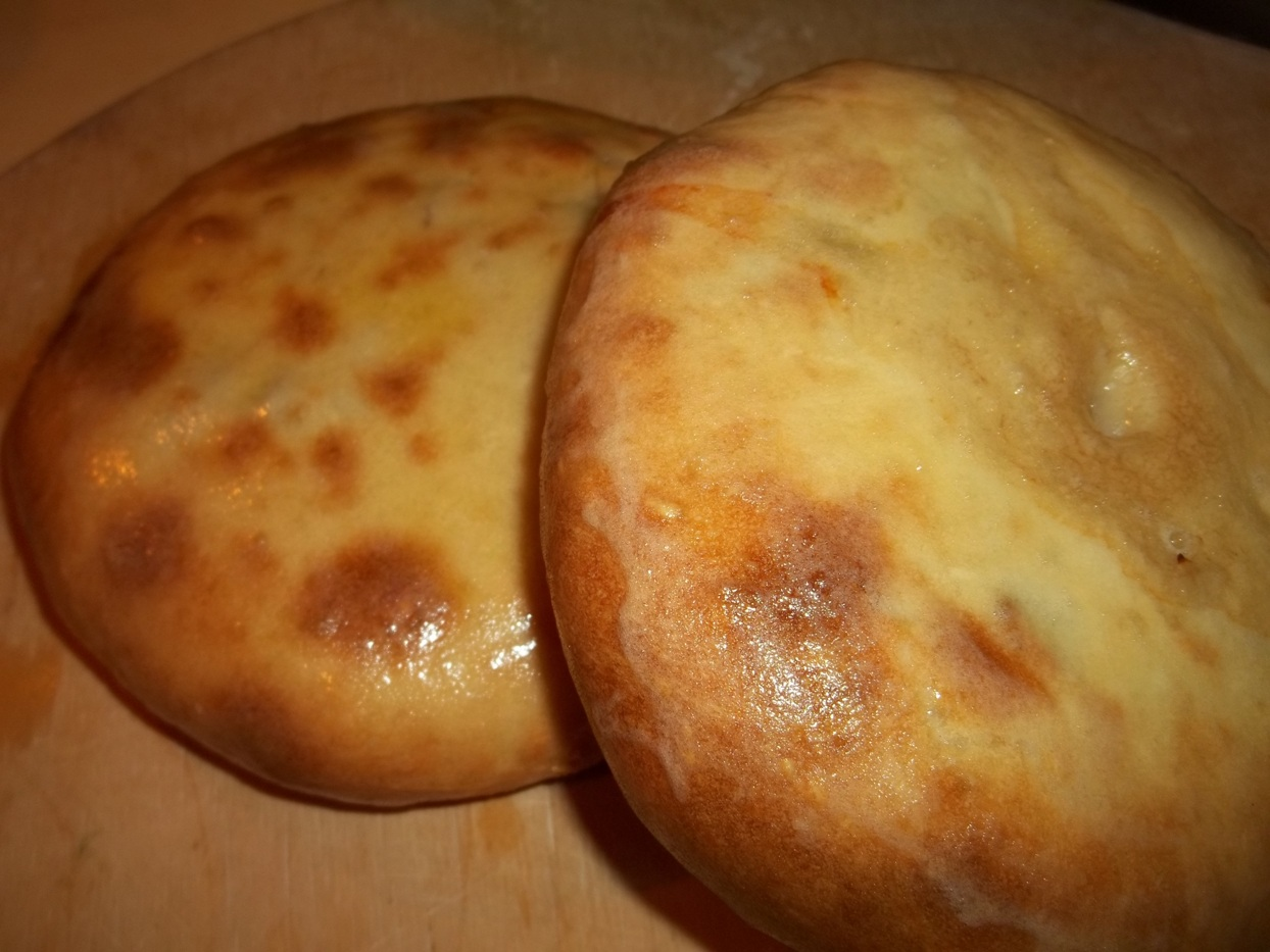 Kubdari (or kuptaari, Svanetian meat filled pastry)